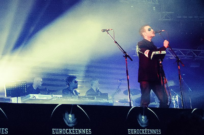 Massive Attack at the Eurockéennes 2008